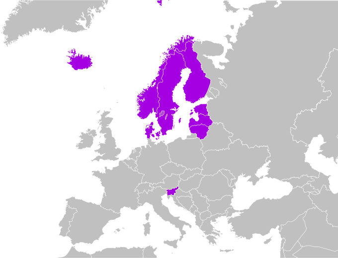 Vikinglotto countries in Europe